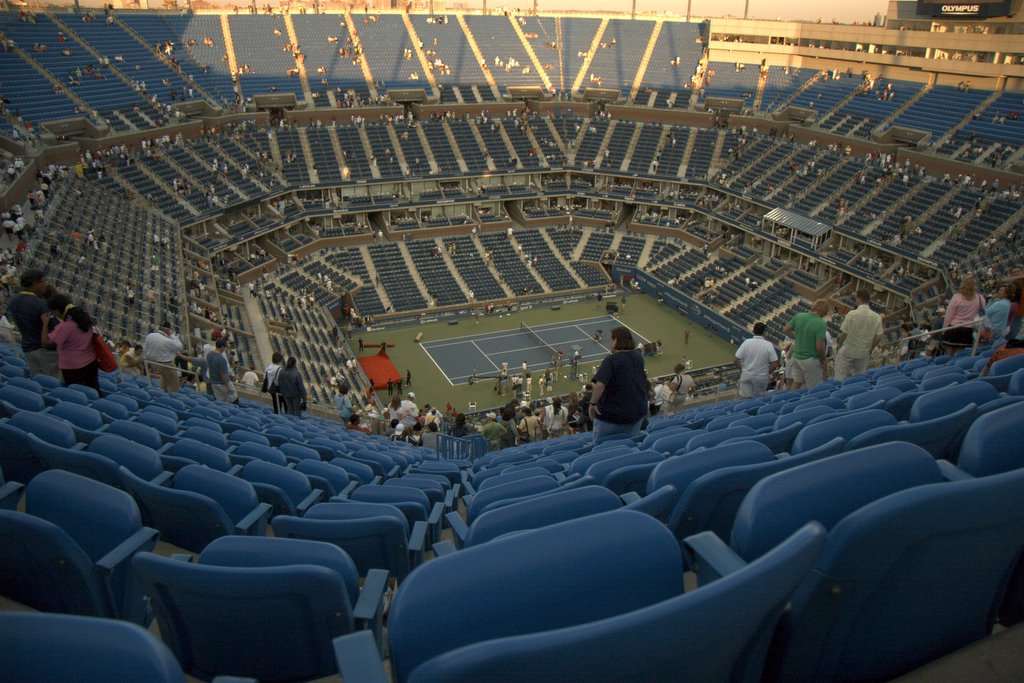 The Arthur Ashe Stadium is the main tennis stadium for the US Open held in New York each year.